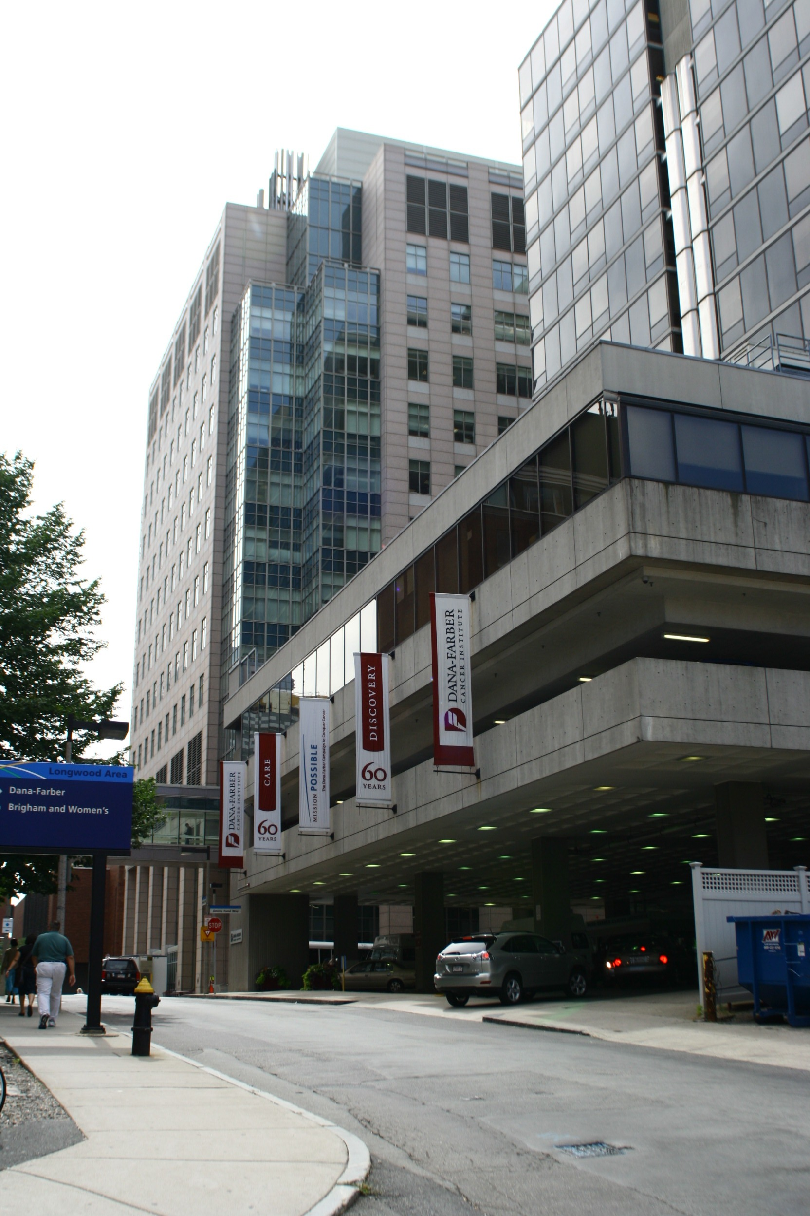 The Dana Farber Cancer Istitute in Boston. To the right the Dana Farber building and to the left the Smith building.